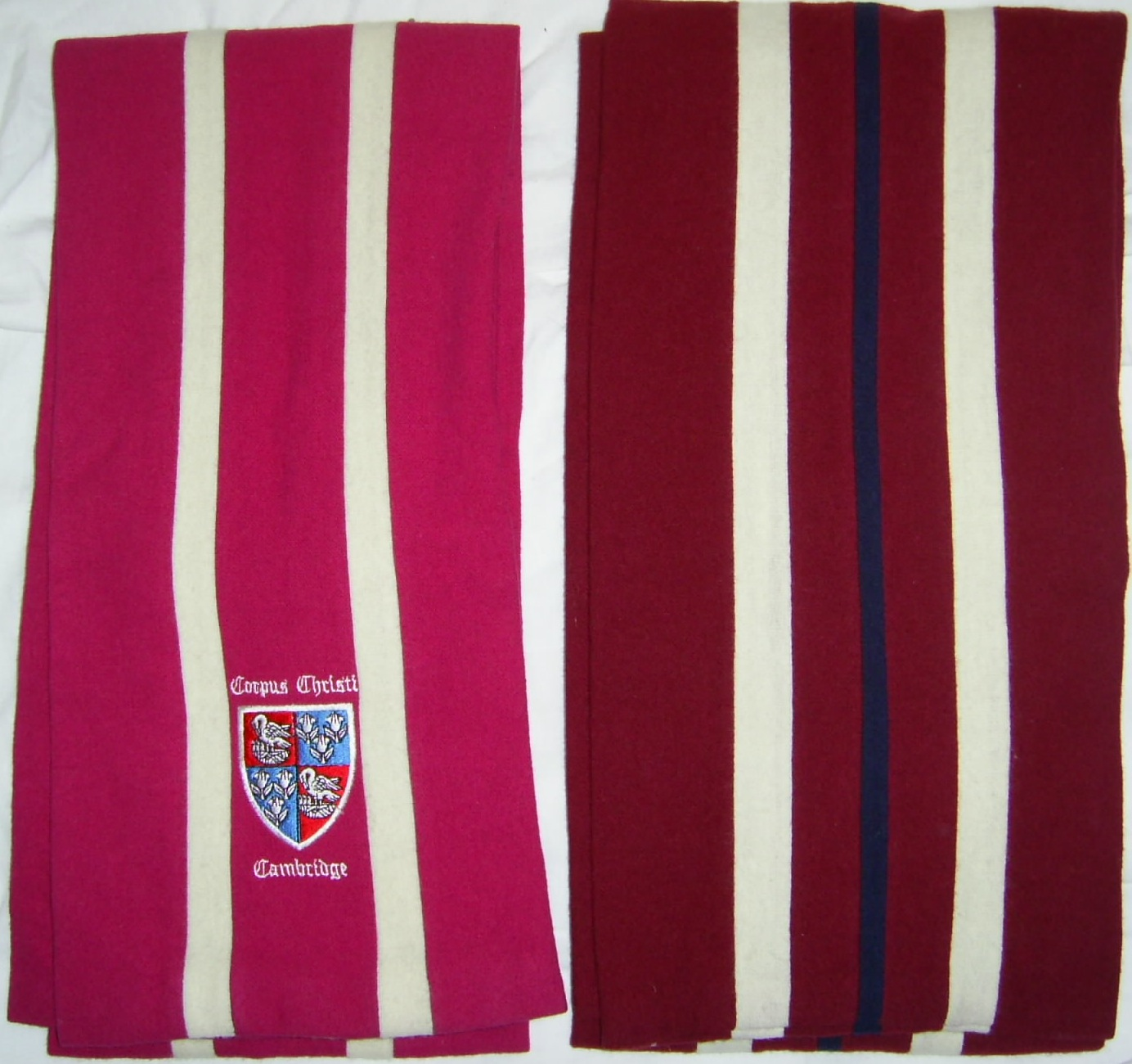 Two scarves associated with Corpus Christi College Cambridge. The one on the left can be worn by all members of the college. The one on the right can be worn by officers of the college chapel including the chaplain, chapel wardens and the chapel choir